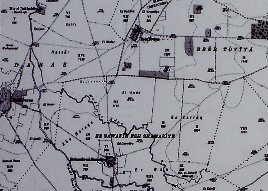 Bayt Daras & al-Sawafir al-Shamaliyya 1930 1:20,000